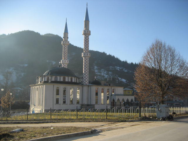 The new mosque the village of Chepintsi.